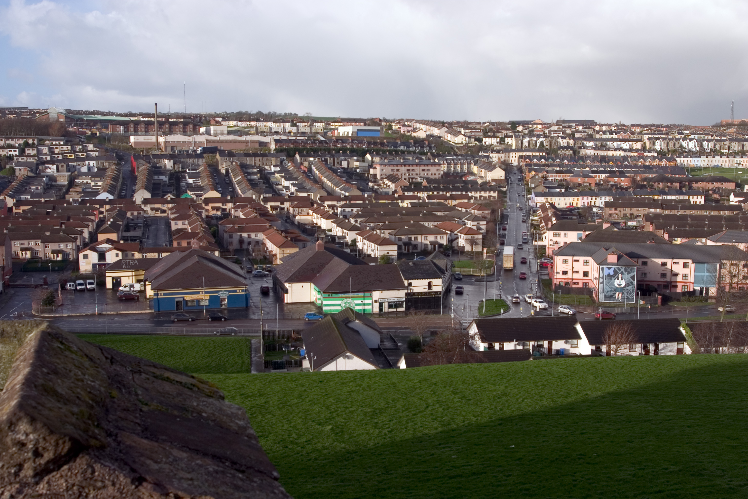 View over the Catholic neighbourhood of Bogside, Derry, County Londonderry, Northern Ireland.View over Catholic Bogside, Derry